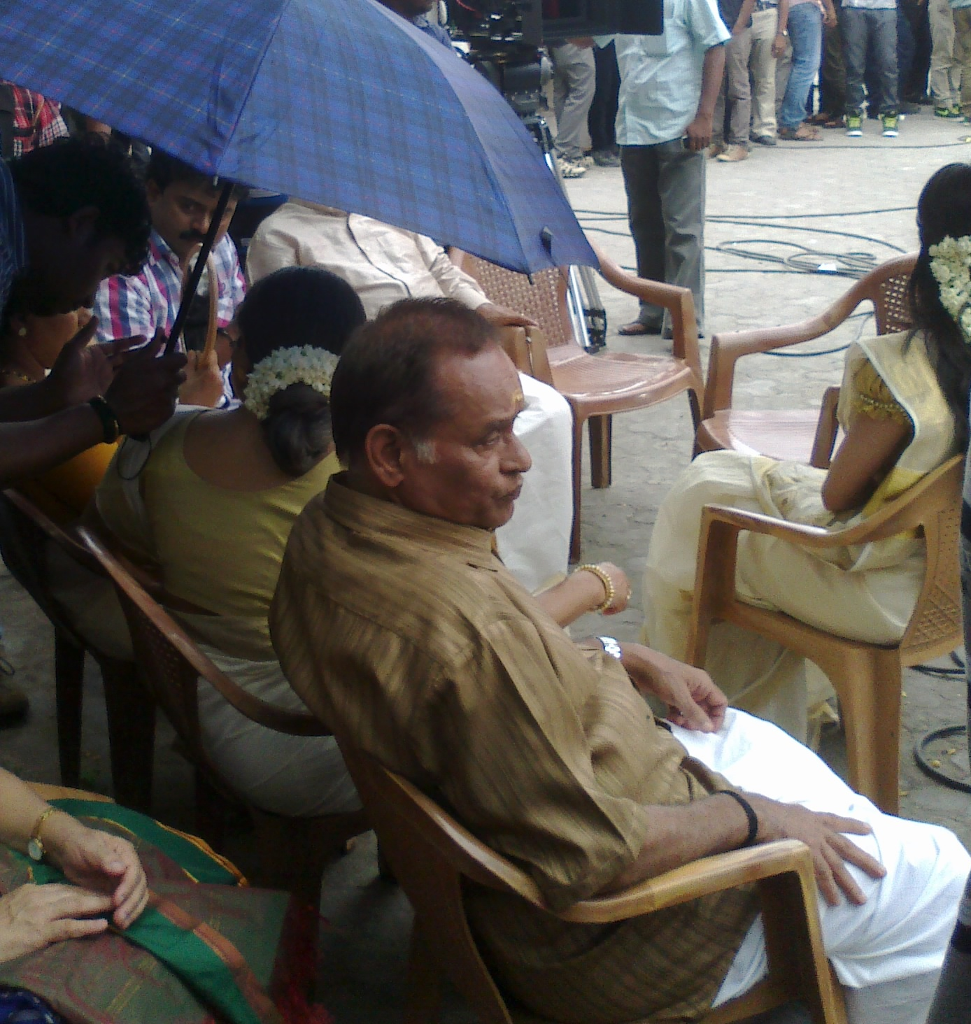 Babu Namboothiri, malayalam actor in the location of the movie Srikaravelan